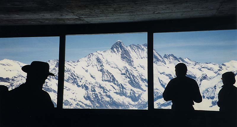 Photo out the window of the Eismeer station of the Jungfraubahn